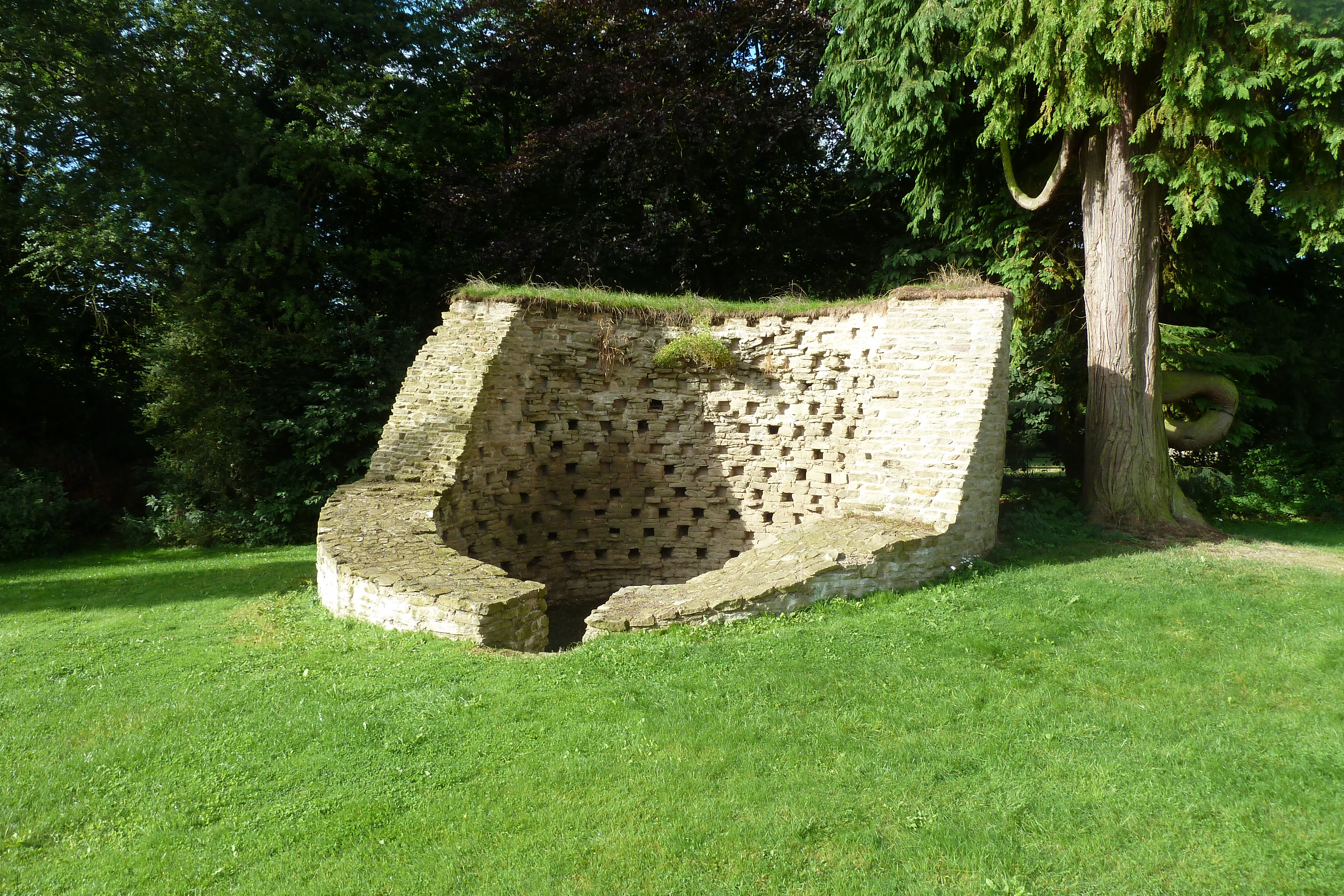 The medieval dovecote at The White House, Aston Munslow